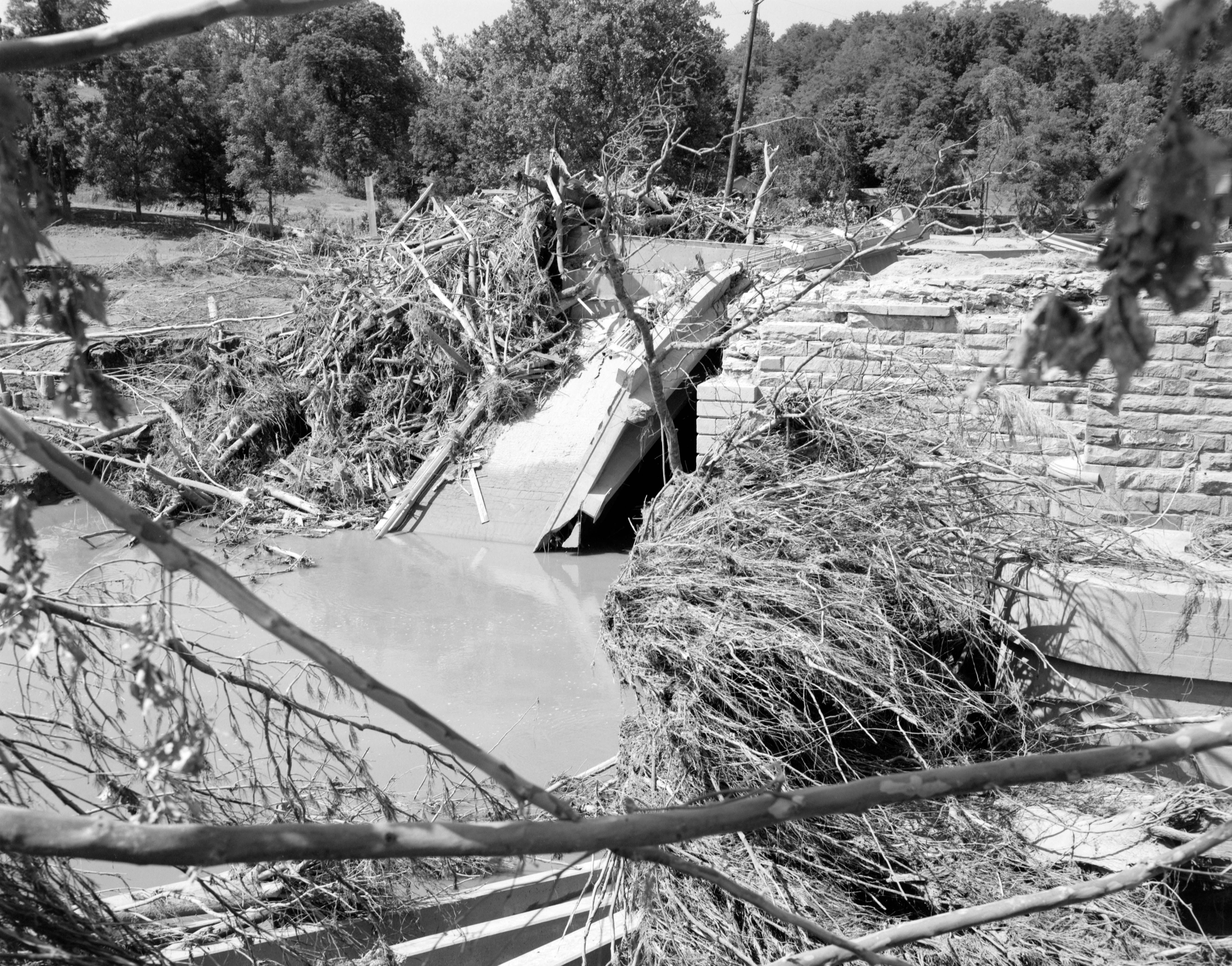 Debris and the remnants of the Rt. 626 bridge over the Rockfish River. Located in Howardsville, Nelson County. No. 69-2109, Virginia Governor's Negative Collection, Library of Virginia.